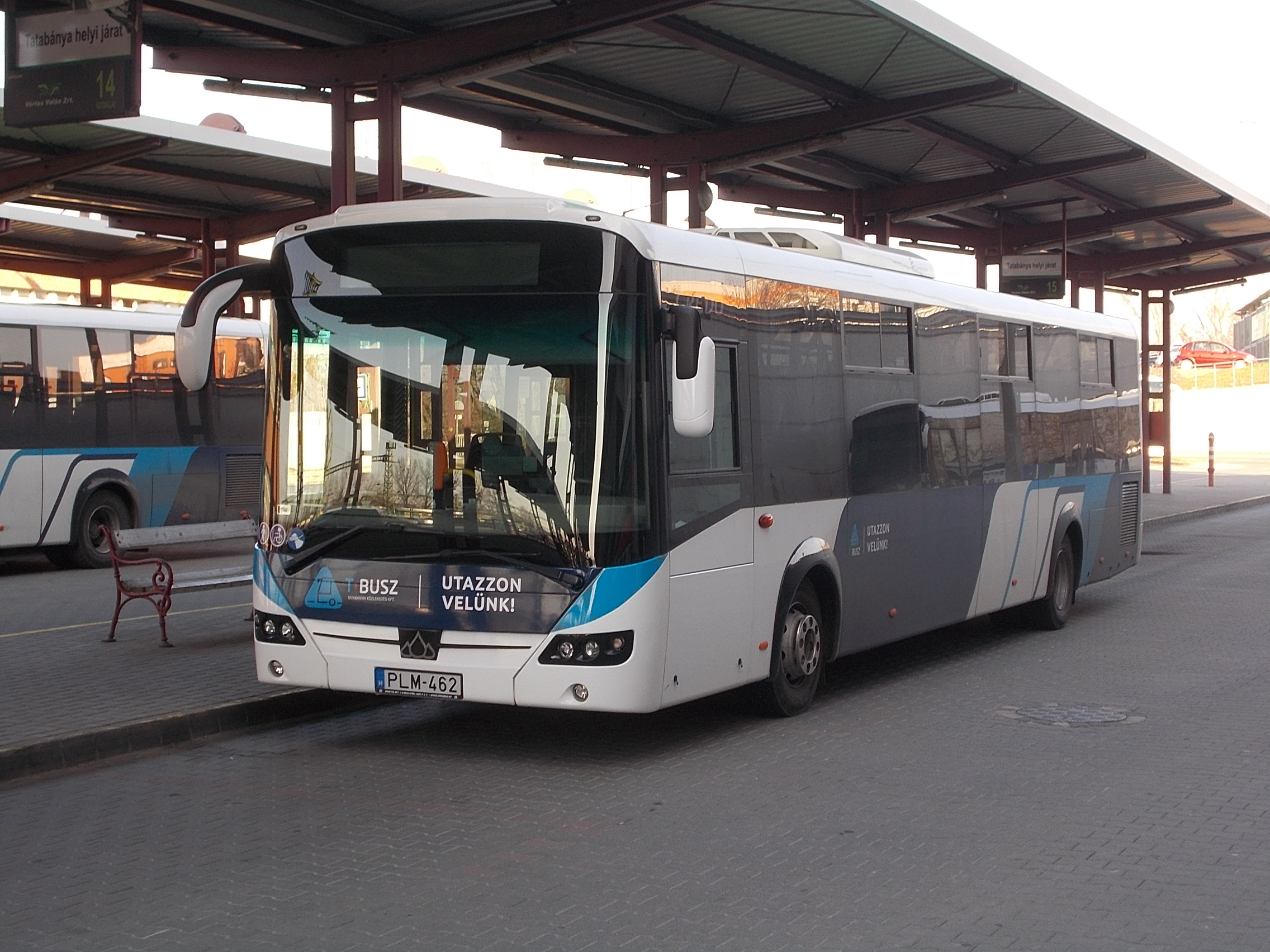 Bus station, Credo bus. - Jedlik Street, Tatabánya, Komárom-Esztergom County, Hungary.